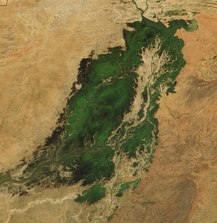 Niger River in Mali, 2001. Just south of the Sahara Desert in Africa, the Niger River creates a lush area of wetlands and lakes in an otherwise arid environment. In this true-color MODIS image from October 18, 2001, the Niger enters at left as a thin strip of green and flows northwest through Mali. The river then turns south and heads into the country of Niger. (Note, this is at the end of the rainy season, showing the Niger Inland Delta in dark green).